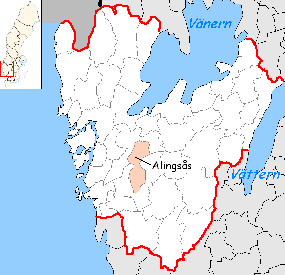 Alingsås Municipality in Västra Götaland County Designed by me. Mere outlines are a PD source from